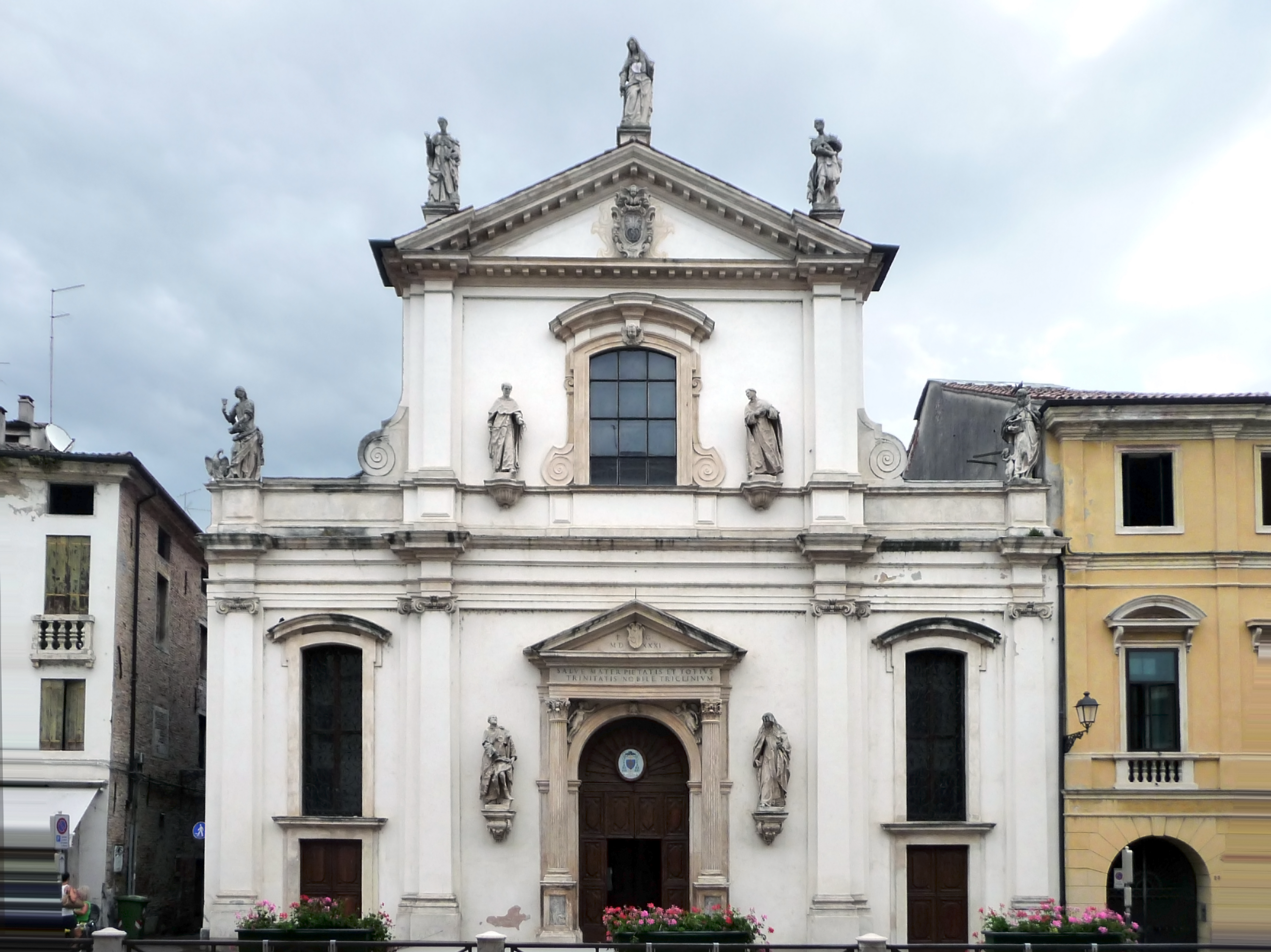 Church of Santa Maria in Foro called "dei Servi" in Vicenza, piazza Biade, Italy. Begun in the early 15th century by the catholic Order of the Servi di Maria (Servite Order). The church main portal (1531) has beeen executed by the workshop where Andrea Palladio worked in at the beginning of his career, and may be one of his very early works.